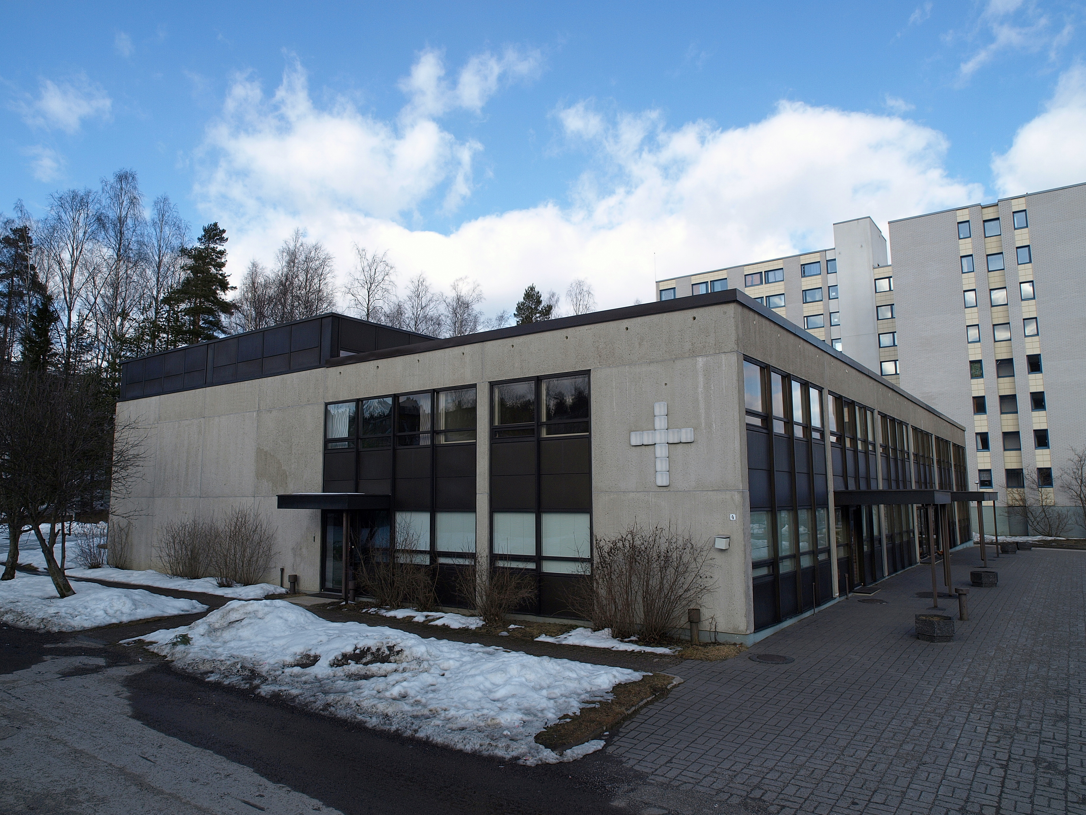 Kortepohja Church in Kortepohja, Jyväskylä, Finland. The church is 1970's architecture in Finland.